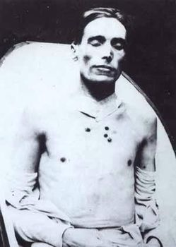 Joe Hill's body.